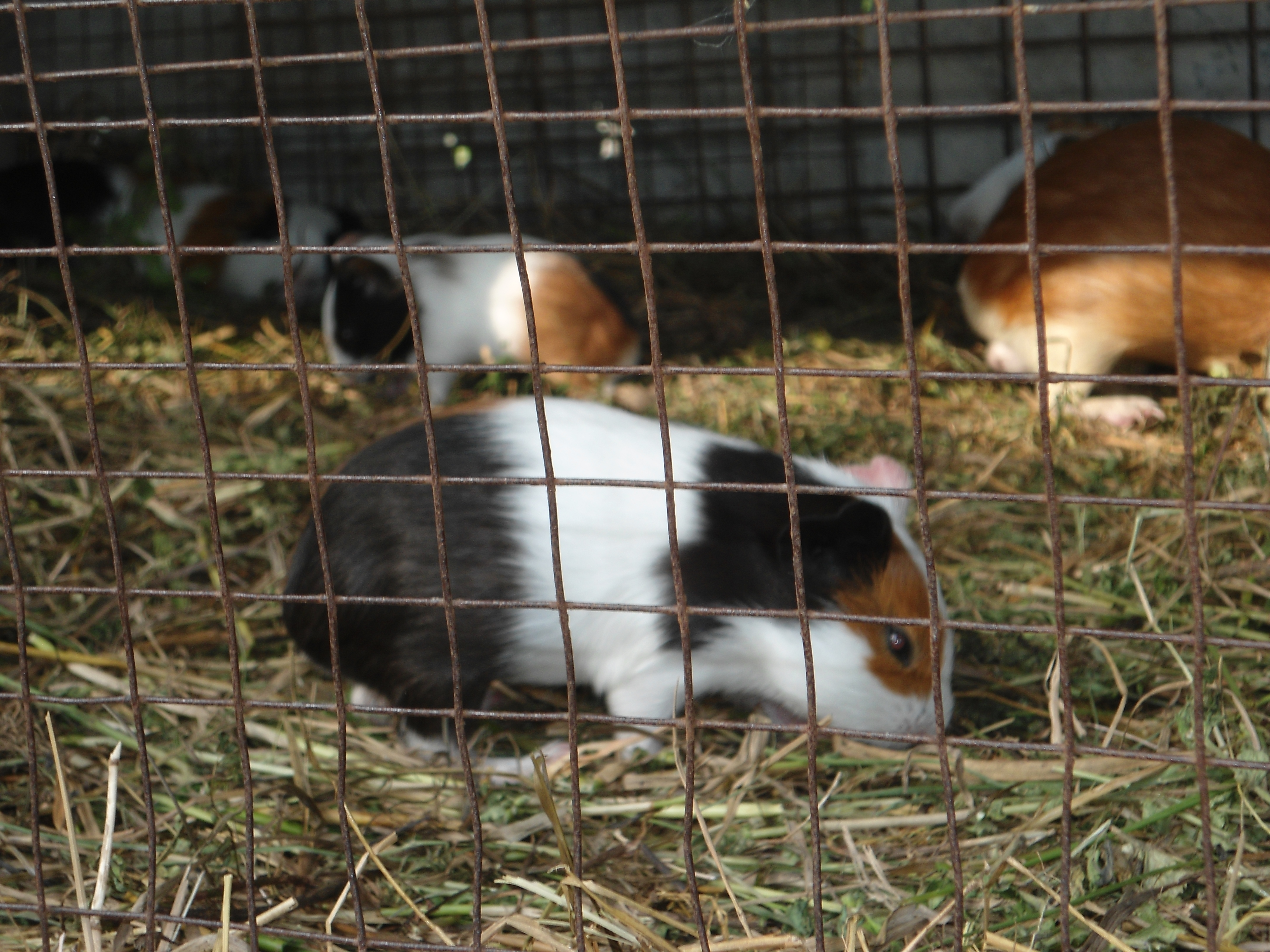 white colour rats inside case